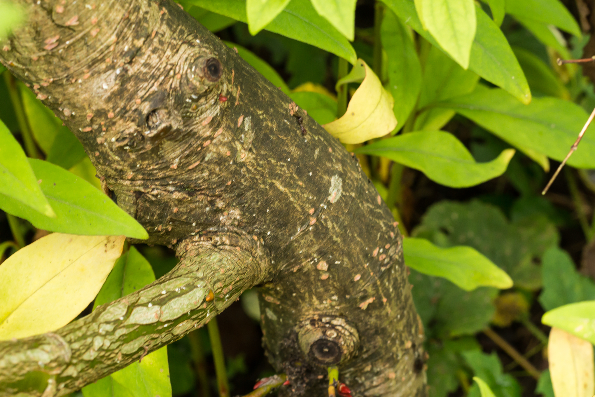 Salix moupinensis: Old wood bark.